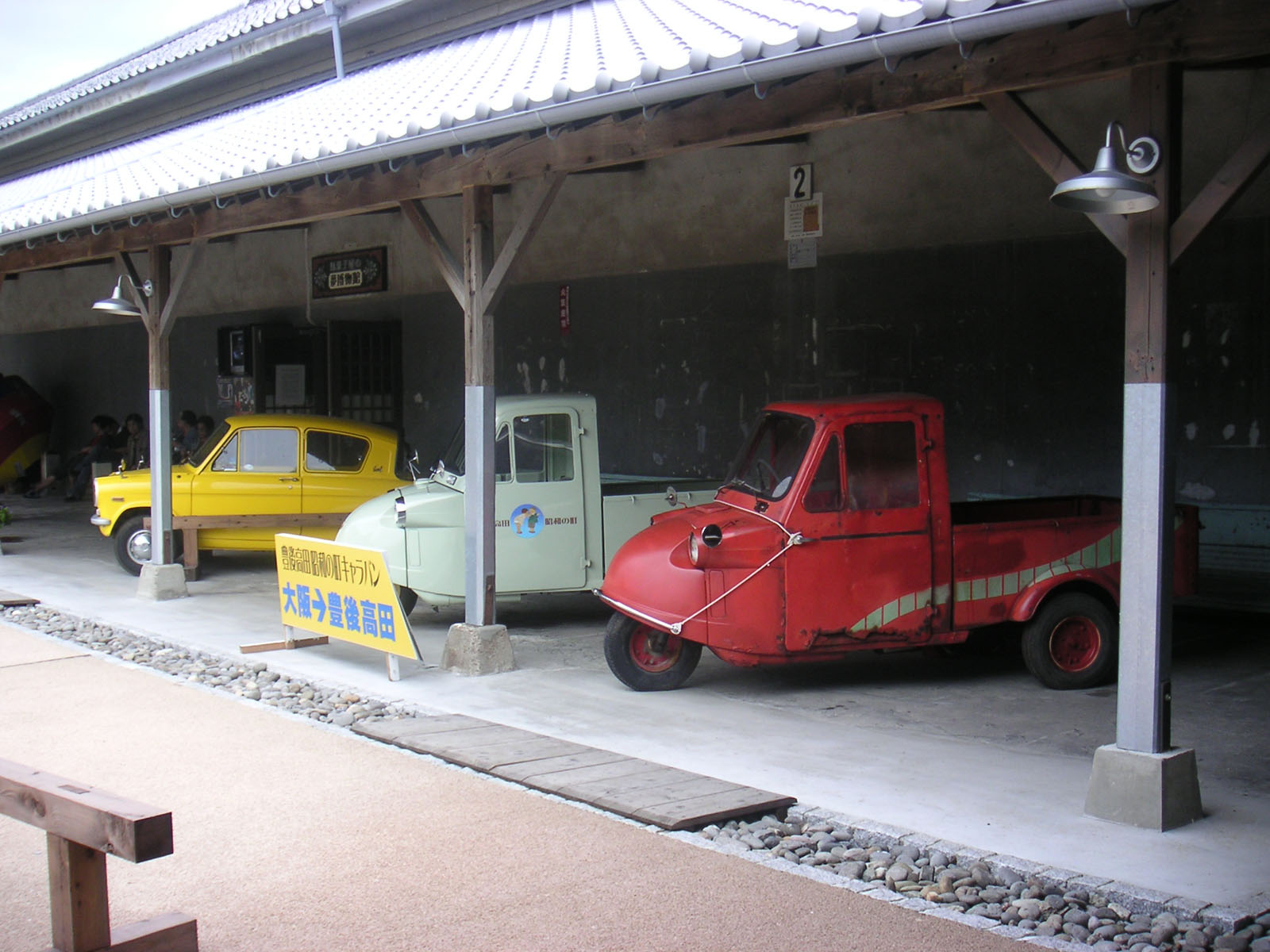 Showa no Machi, Bungo-Takada, Oita, Japan